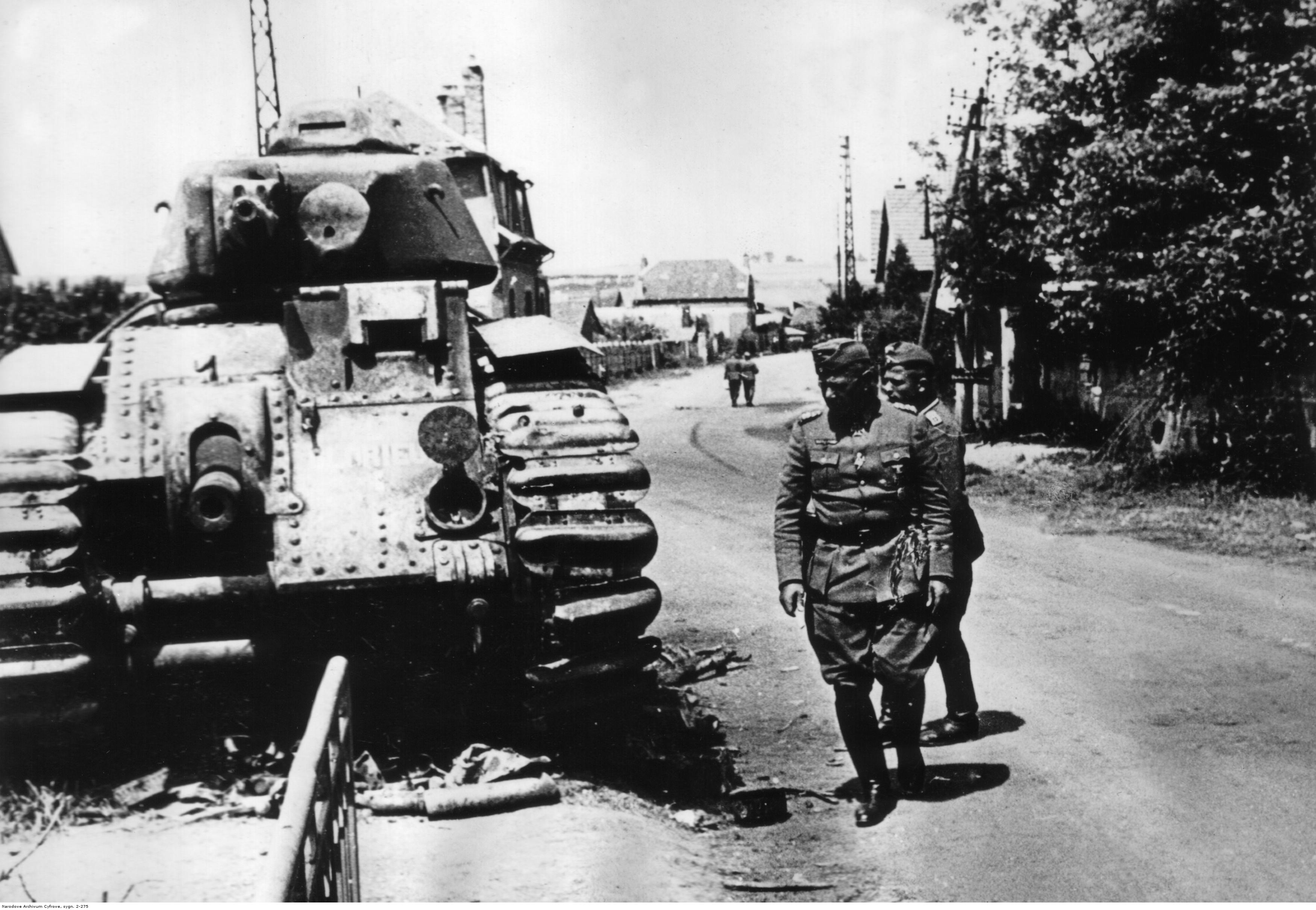 General Walther von Reichenau inspecting Char B1 bis "Glorieux" (from the French 8th Tank Battalion) destroyed in Moÿ-de-l'Aisne on May 17th